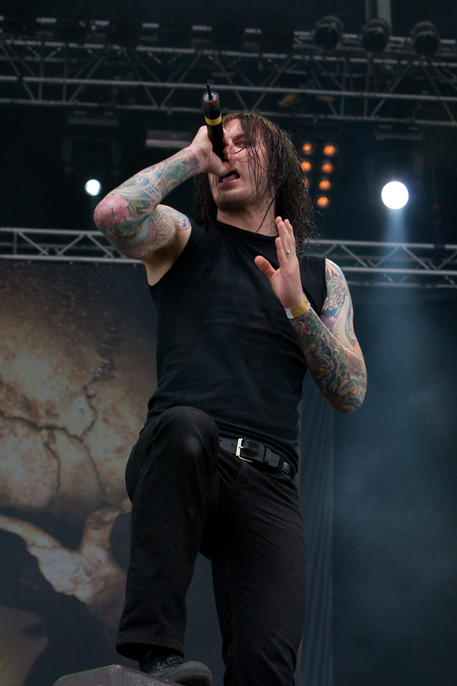 Tim Lambesis / As I Lay Dying (at With Full Force 2007)